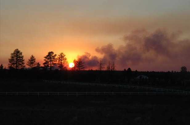 A view of the Rodeo–Chediski fire from Bison Ranch